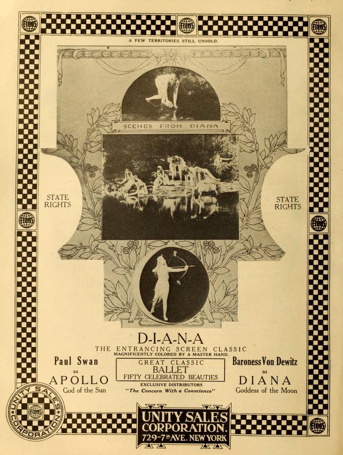 Advertisement in The Moving Picture World for Diana aka Diana the Huntress (1916) with Valda Valkyrien (as Baroness von Dewitz).